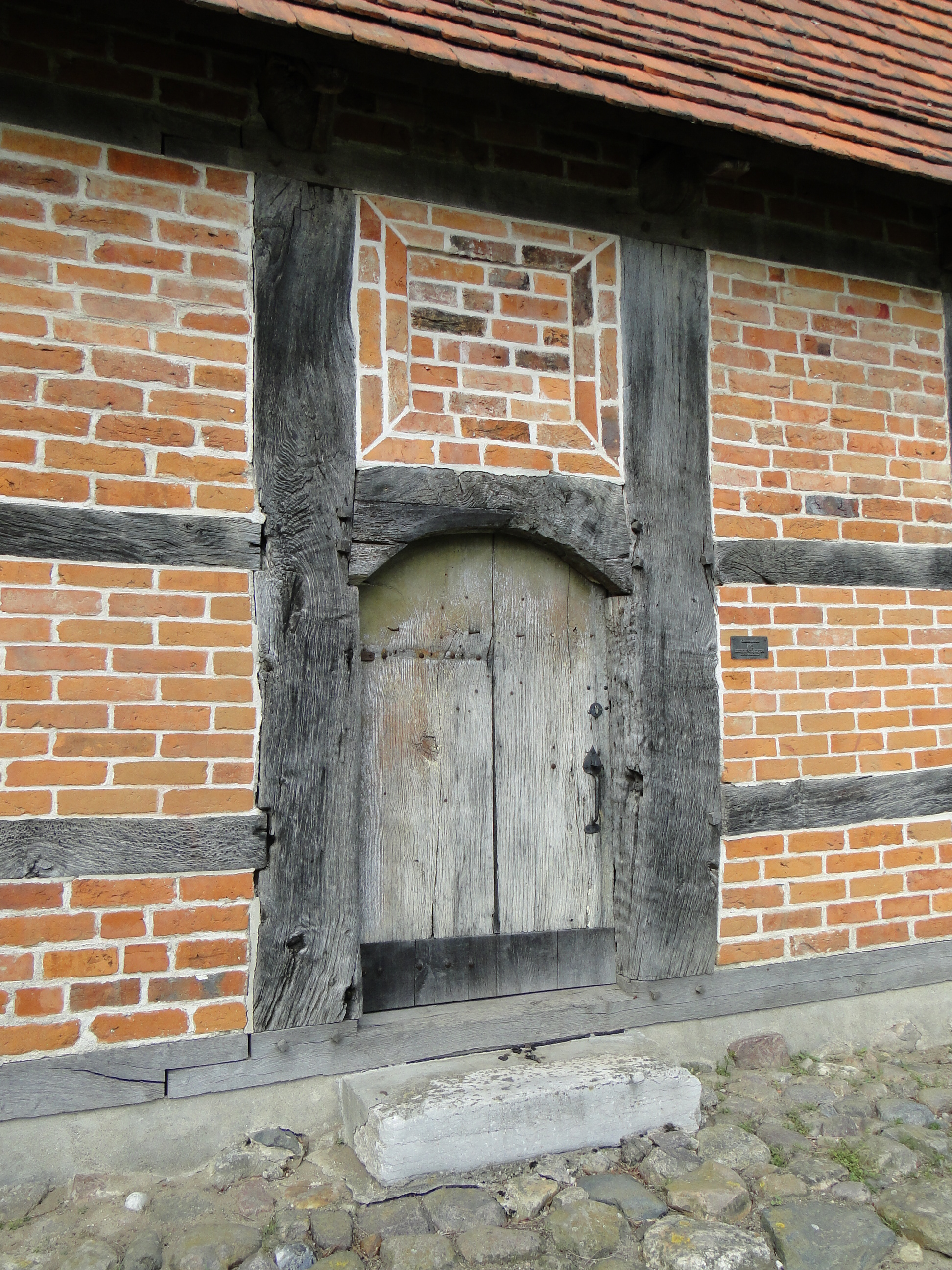 Church in Zaschendorf, district Ludwigslust-Parchim, Mecklenburg-Vorpommern, Germany